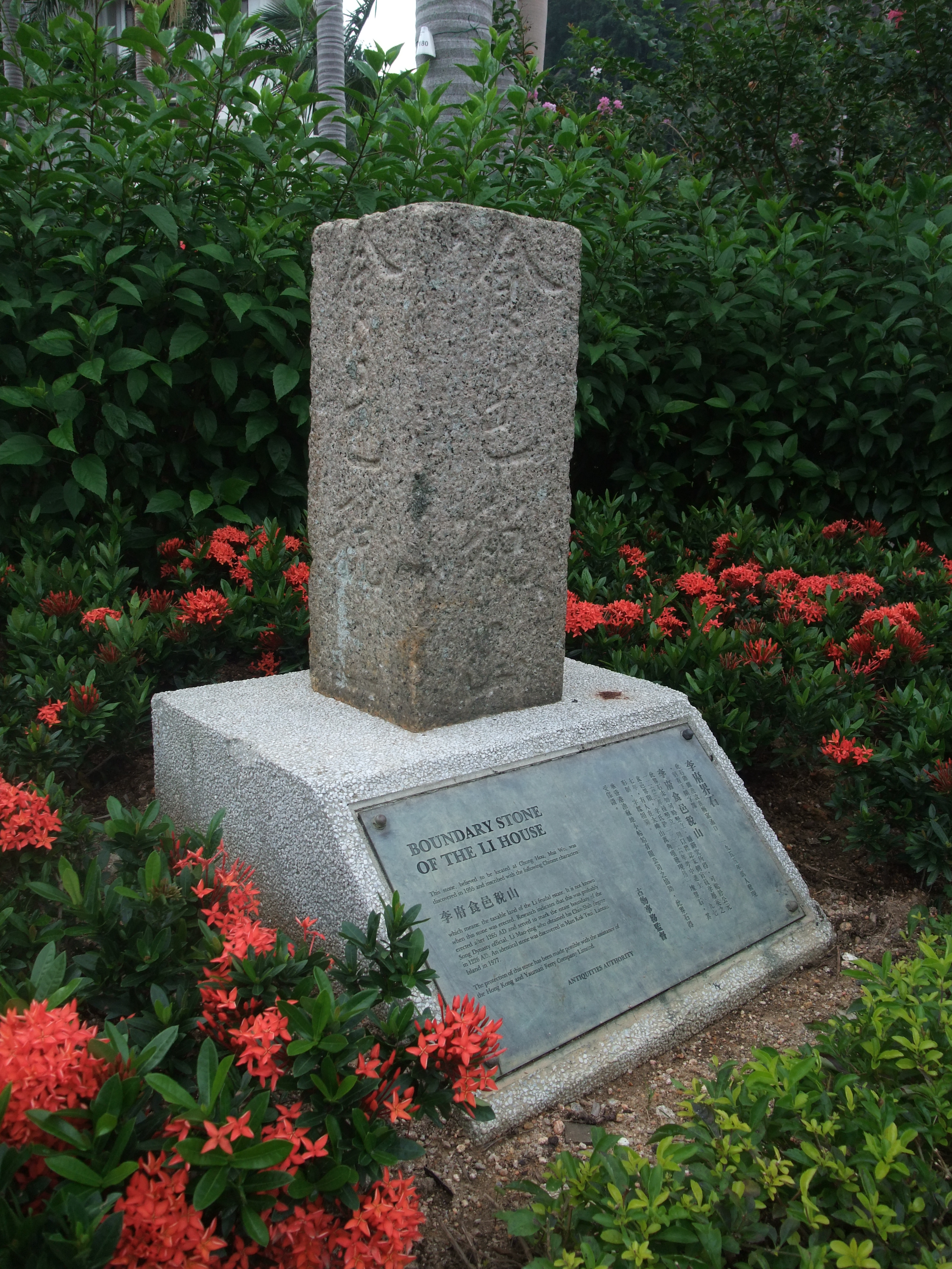 Photo of Boundary Stone of the Li House at Mui Wo